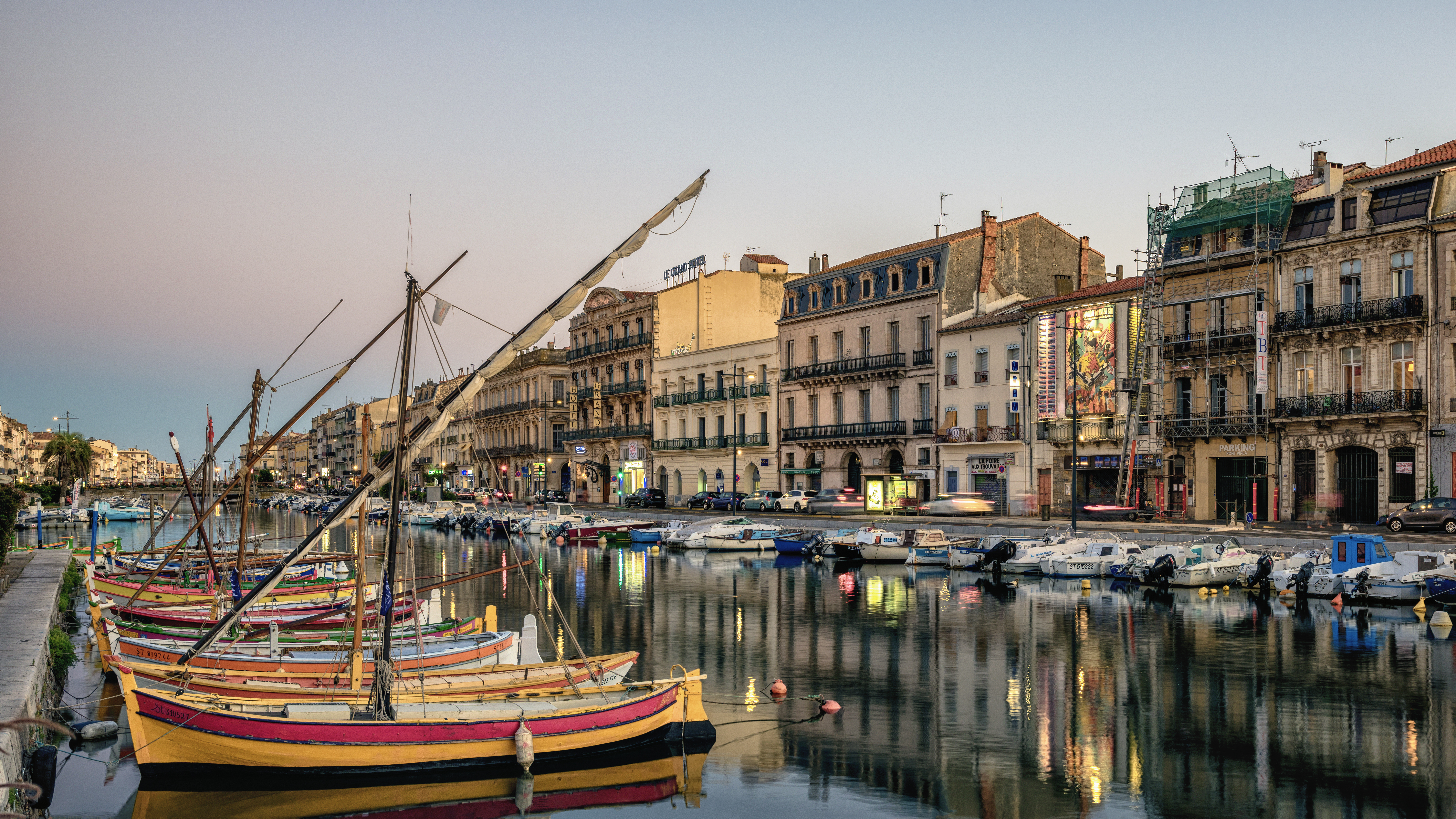 Catalan boats in the Canal de Sète (Hérault, France).